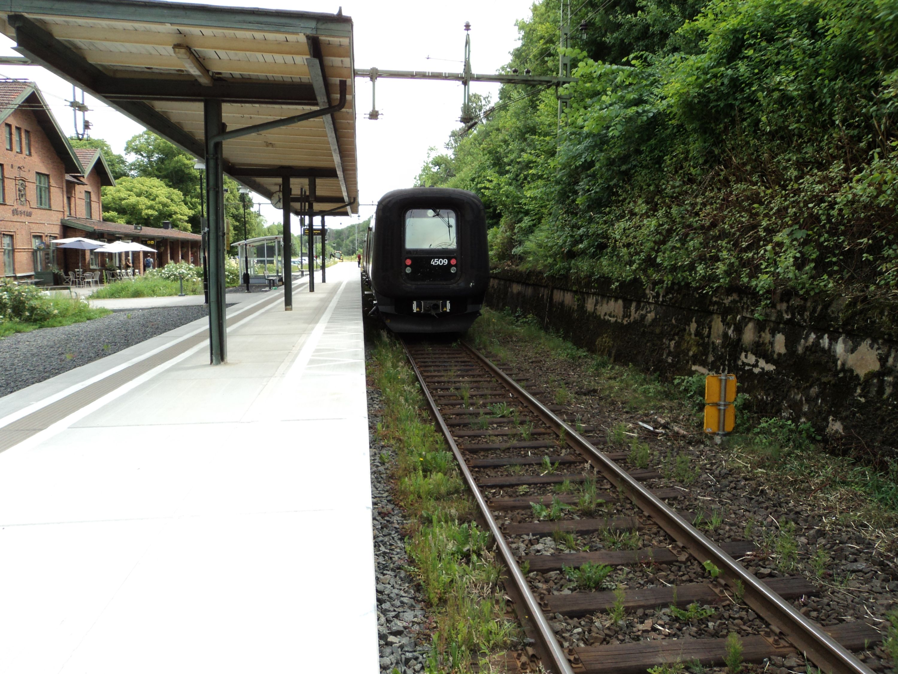 A Öresundtåg for Gothenburg in Båstad station. The track over Hallandsåsen was a single track with many sharp turns, thus the speed was very low. After the tunnel through Hallandsåsen was completed the station was moved a few kilometers to the north.